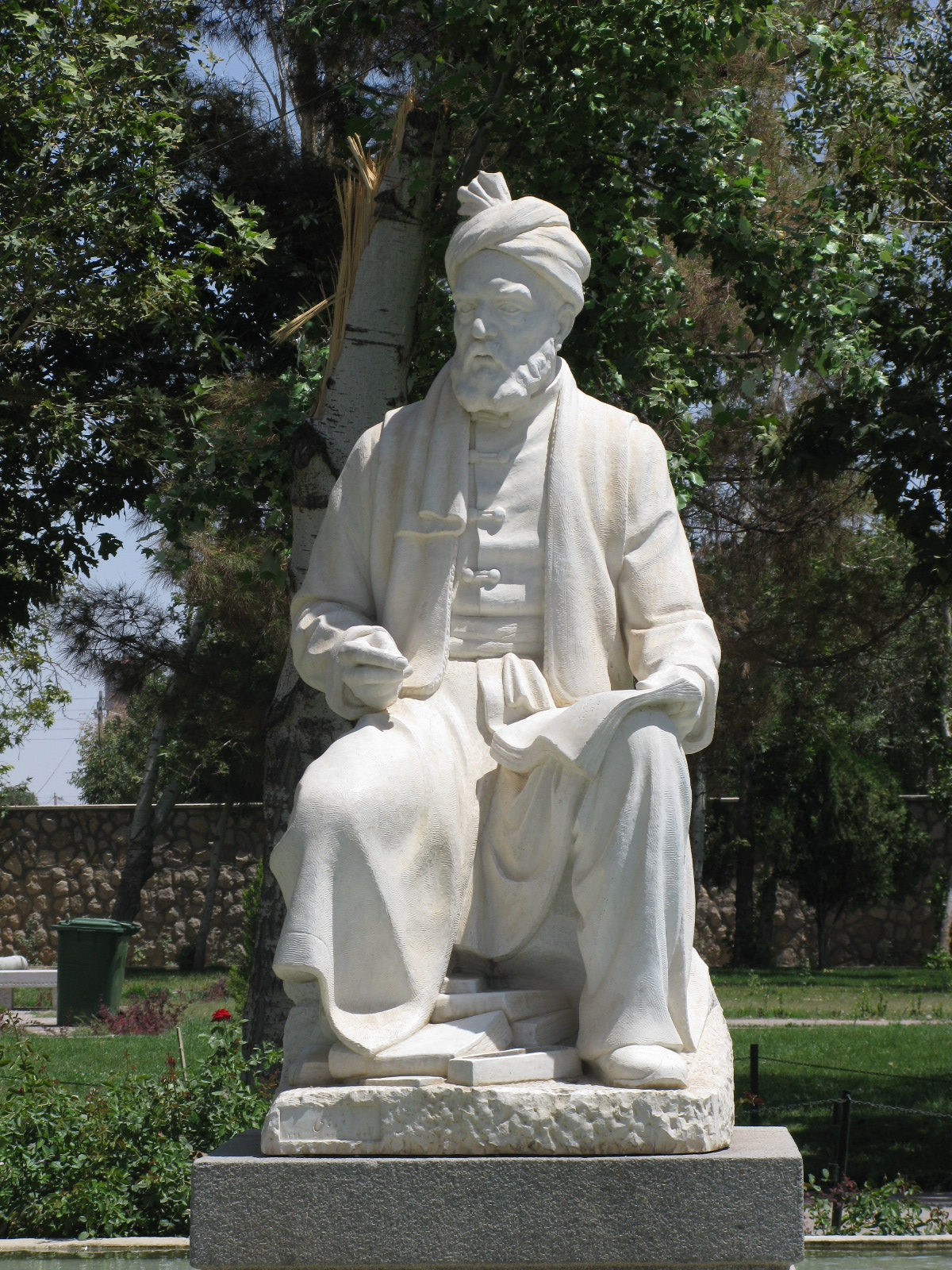 Tomb of Ferdowsi, Tus City, Khorasan Province, Iran